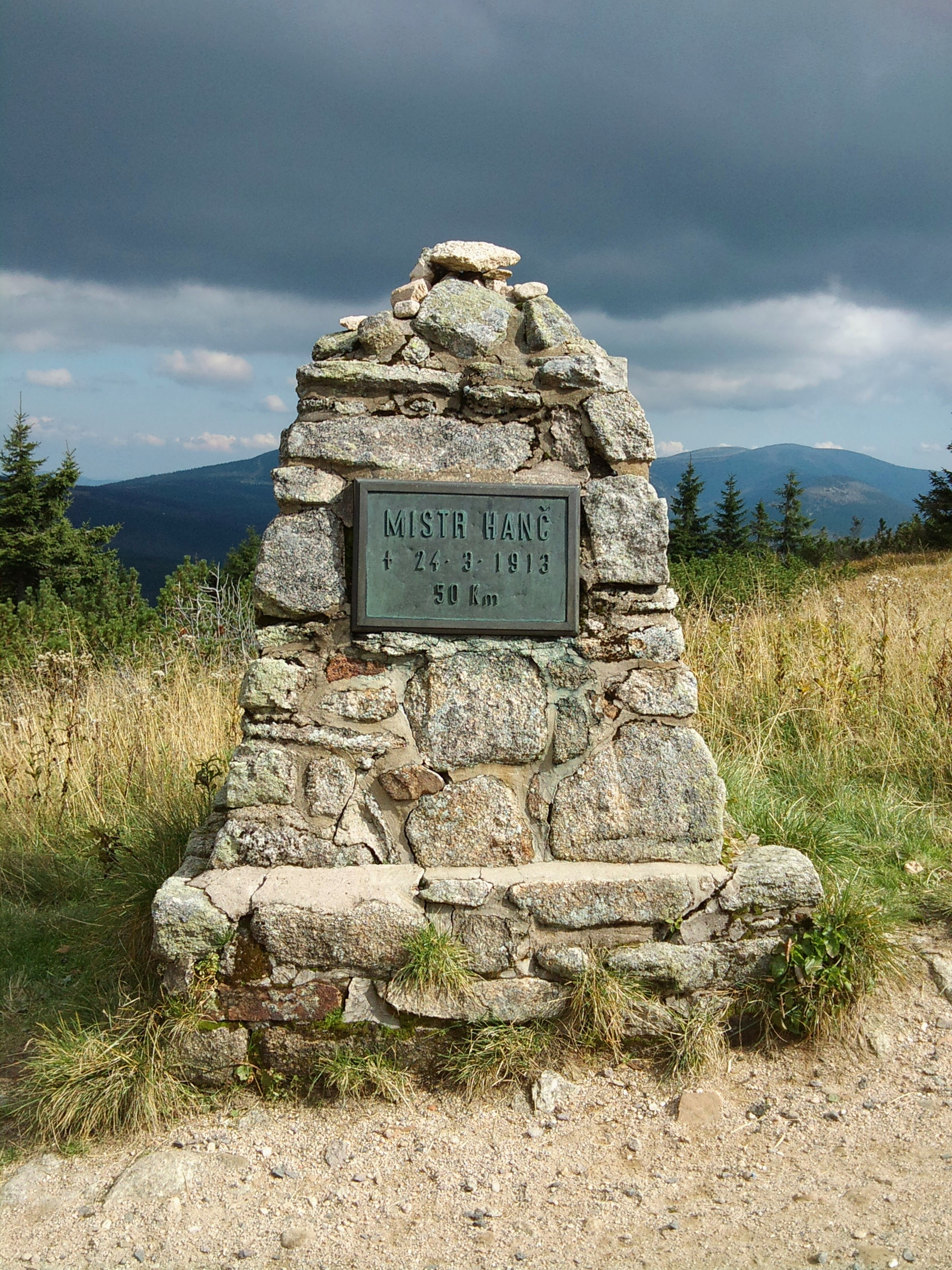 Monument of Bohumil Hanč in the Krkonoše Mountains